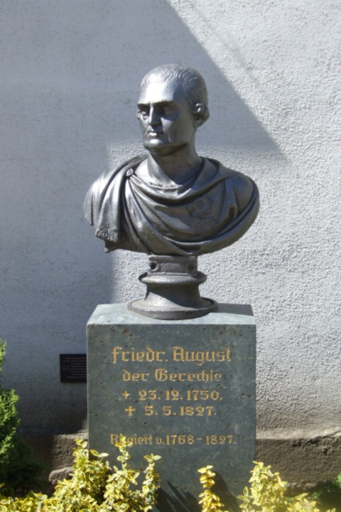 Pedestal with bust of Friedrich August the Fair at Stonehill near Steina at Saxonia (Germany)